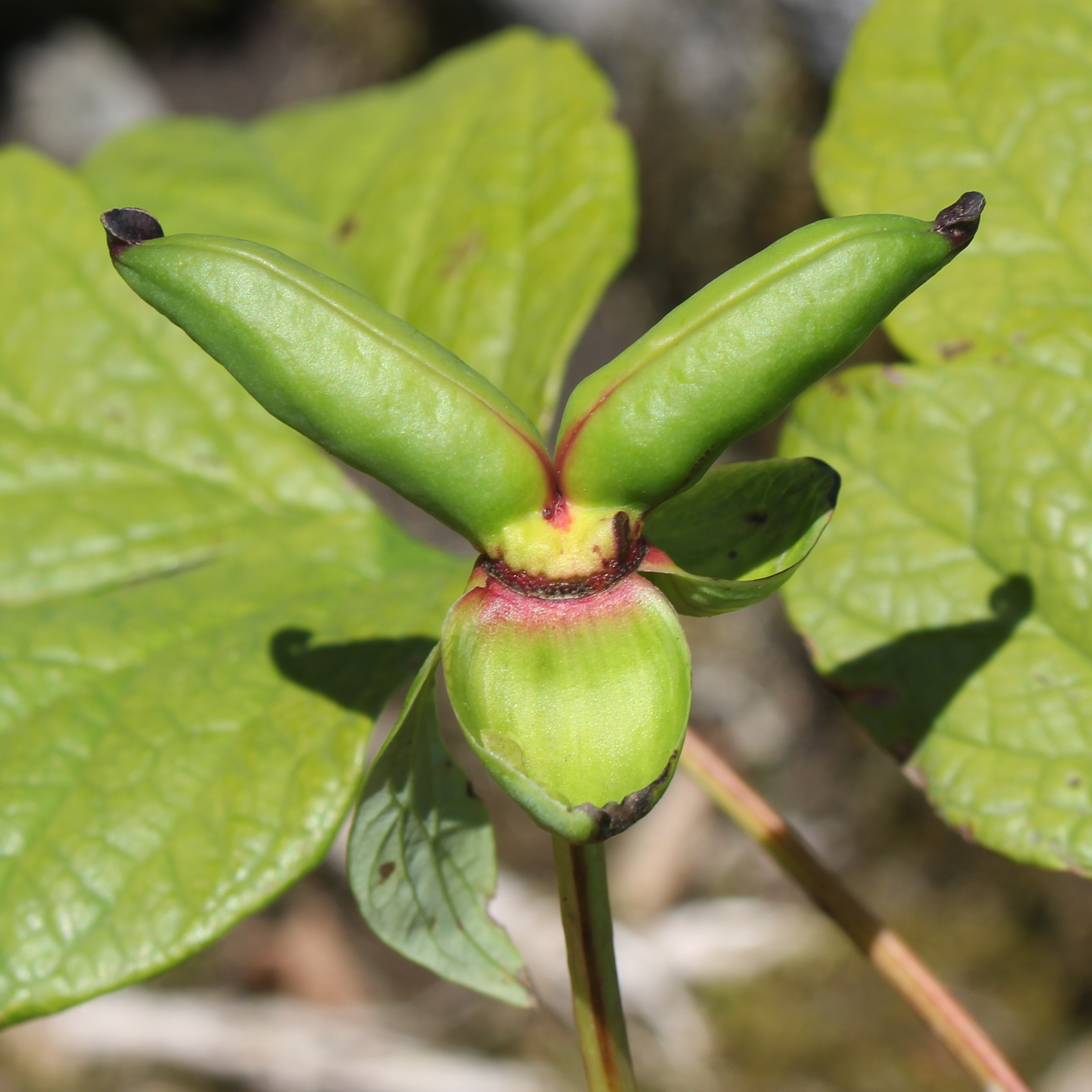 Paeonia japonica in Mount Ryozen of Suzuka Mountains, Taga, Shiga prefecture, Japan.